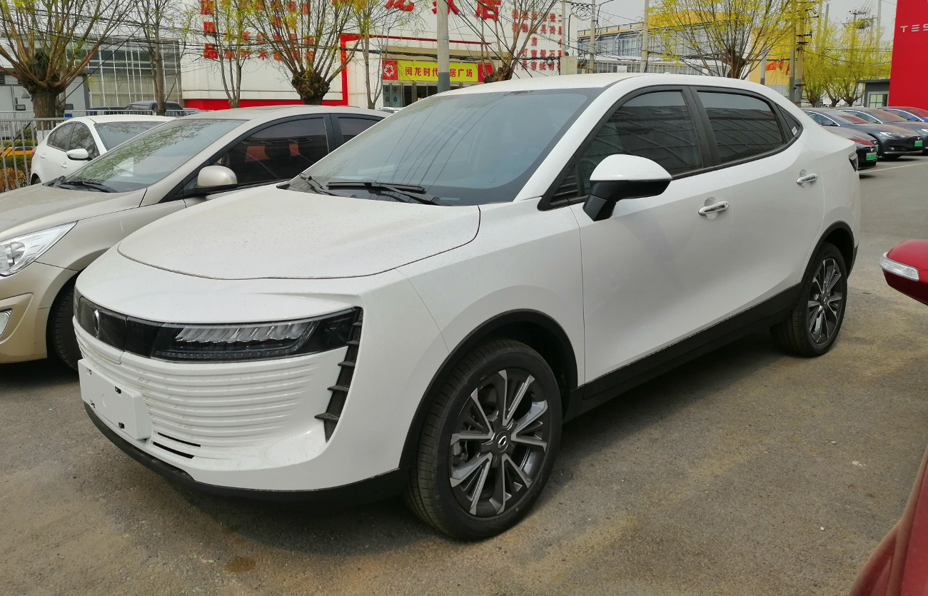 ORA iQ photographed in Beijing, China.